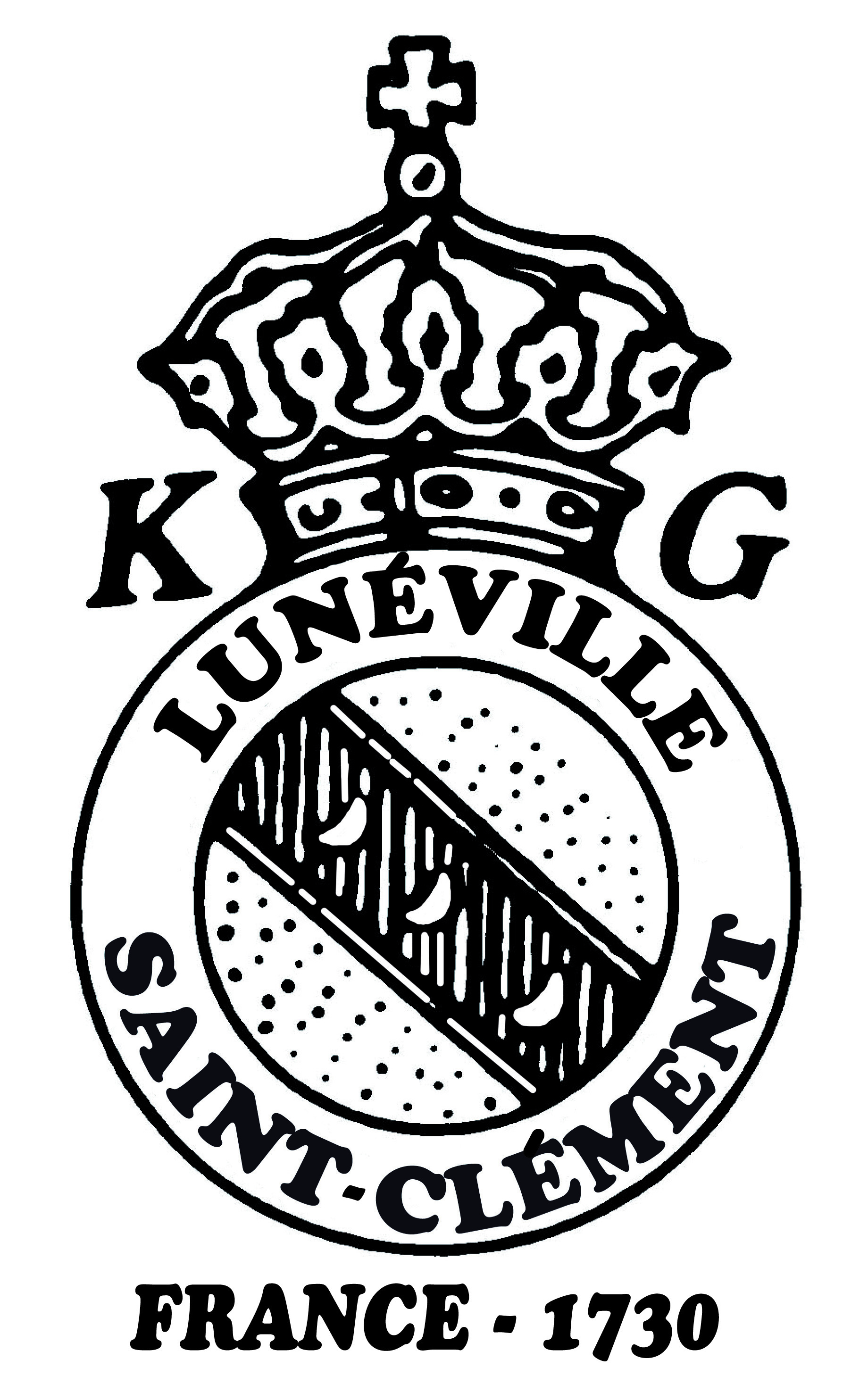 Logo of Lunéville & Saint-Clément KG